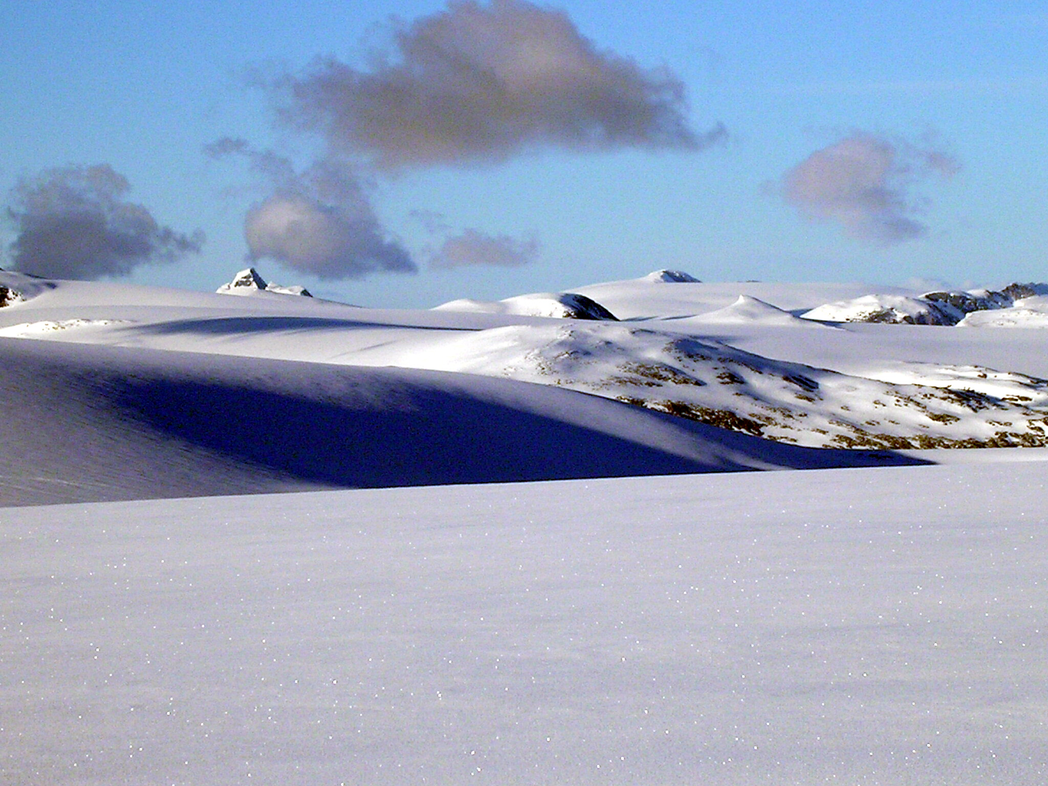 The peak Lodalskåpa on the left side, Brenibba on the right side. The picture is taken on the glacier Myklebustbreen, Sogn og Fjordane, Norway.